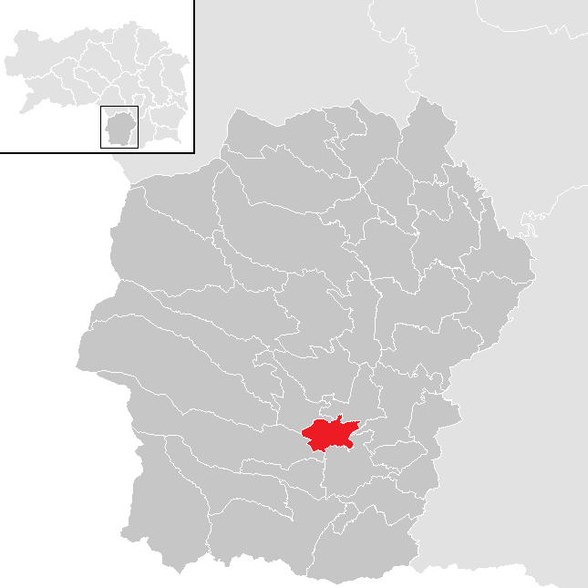 District Deutschlandsberg, Styria, Austria